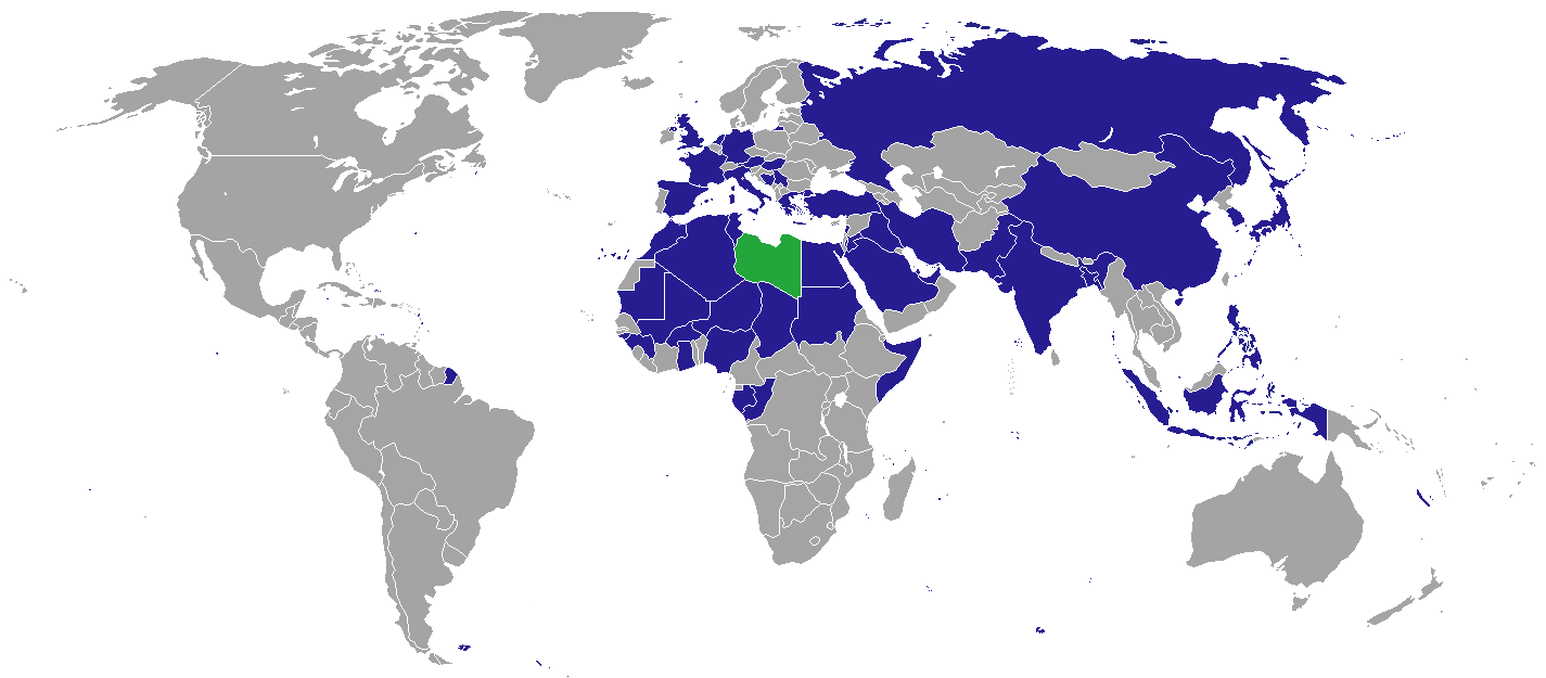 Map of diplomatic missions in Libya